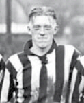 Swedish international footballer Gustav Wetterström. In lineup before a game with his club IK Sleipner, around 1935